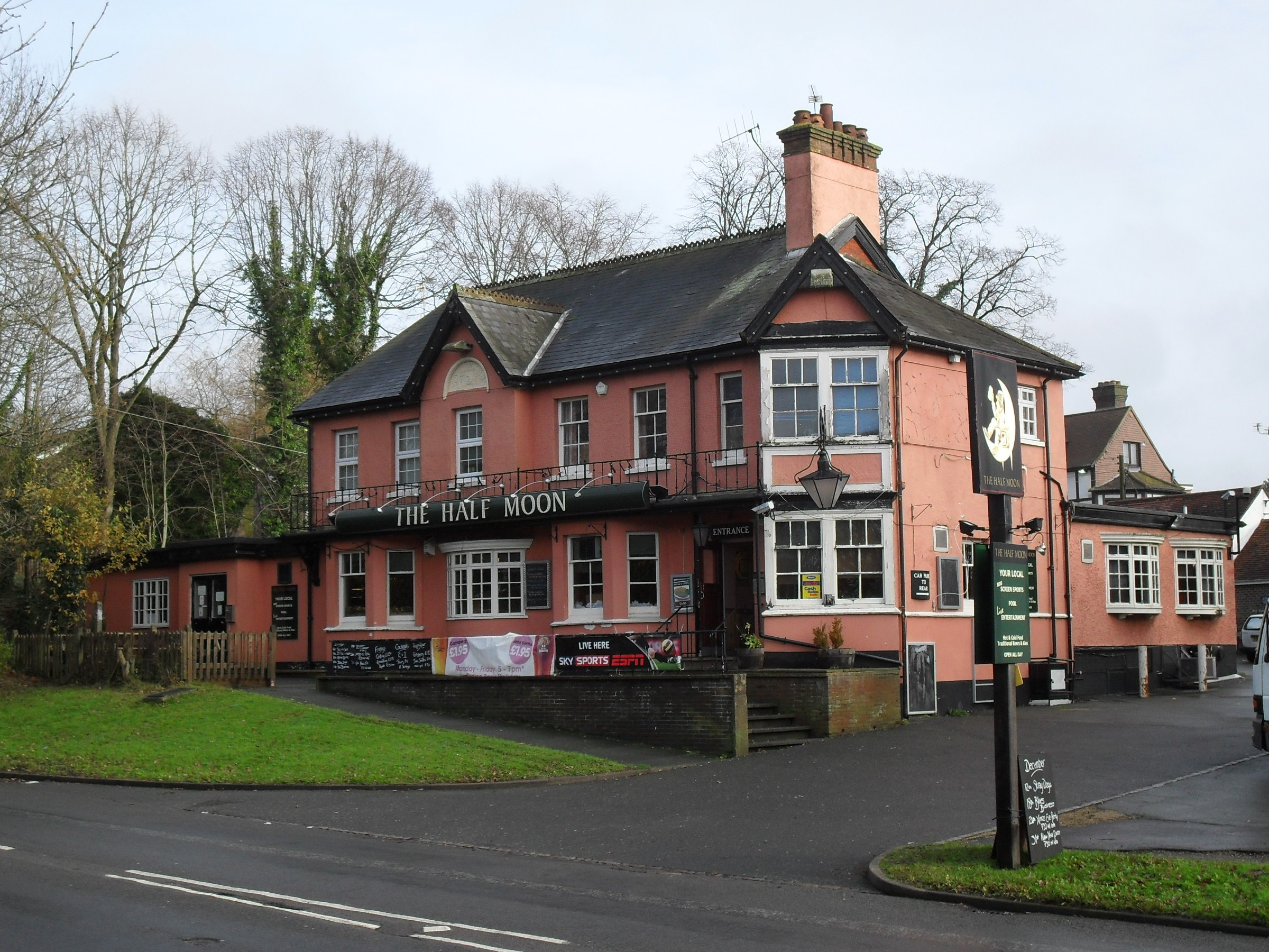 The Half Moon pub, Brighton Road, Southgate, Crawley, West Sussex, England. A 19th-century pub on the main road through the town.